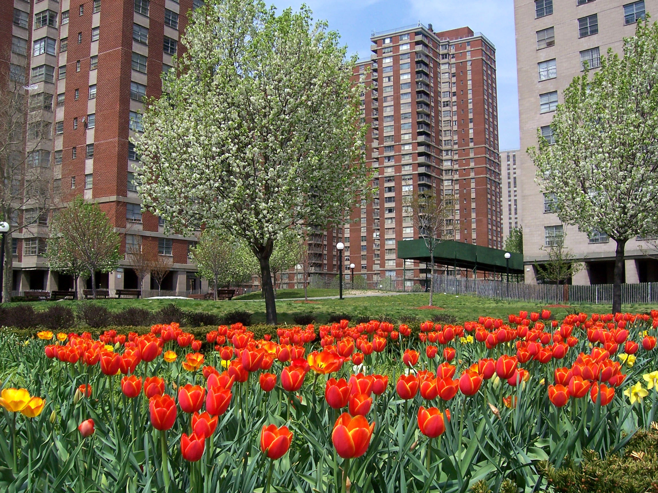 View from corner of Asch Loop/Co-op City Blvd at Co-op City, Bronx during the Spring.